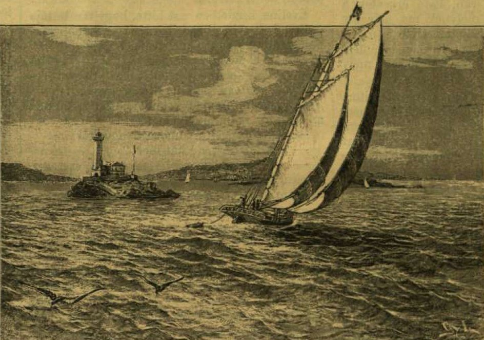 Muló lighthouse.